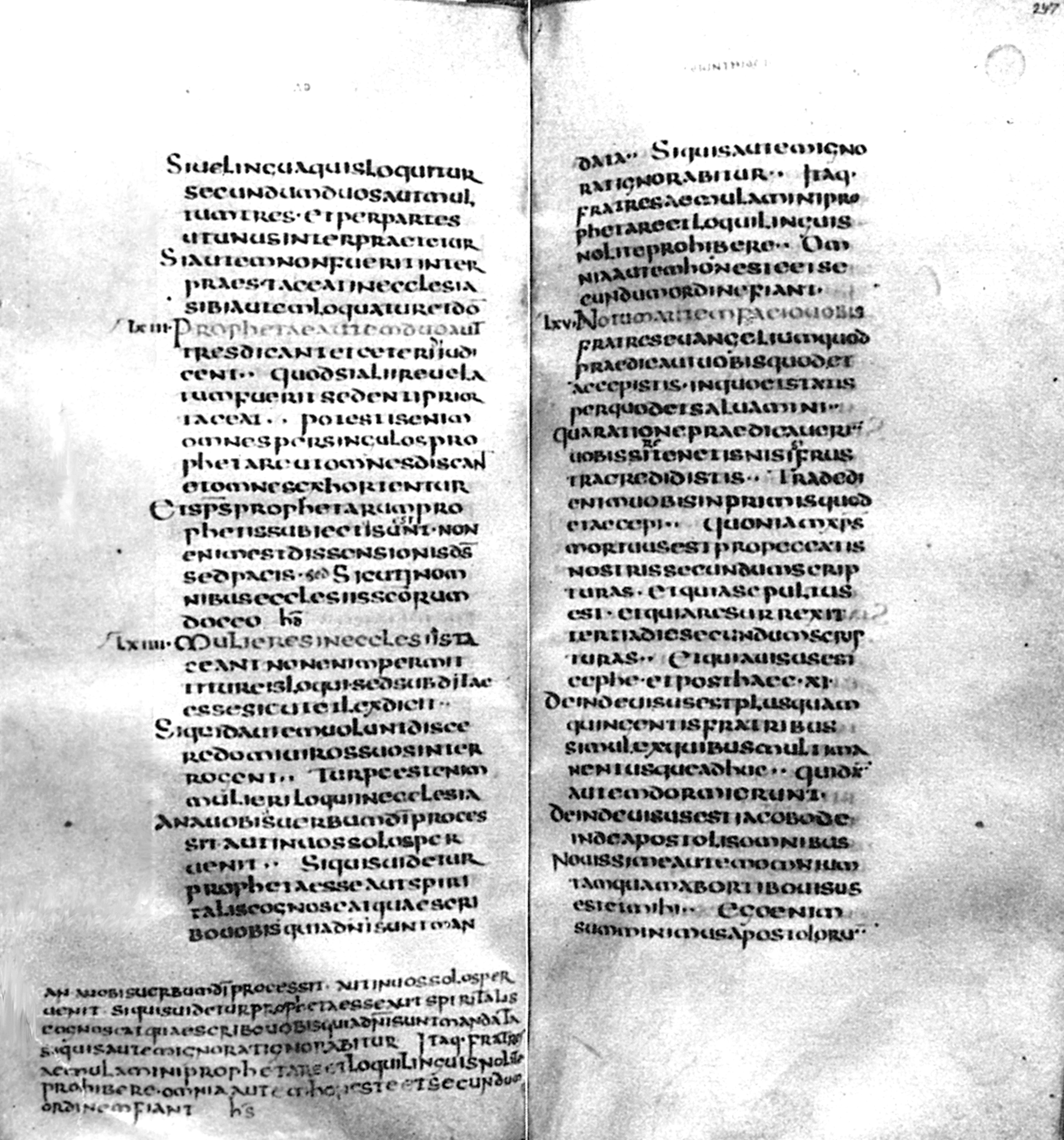 Codex Fuldensis, one of the oldest dated manuscript